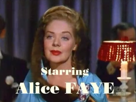 Imagem do trailer do filme "That Night in Rio". Os trailers dos filmes publicados antes de 1964 nos Estados Unidos são de domínio público